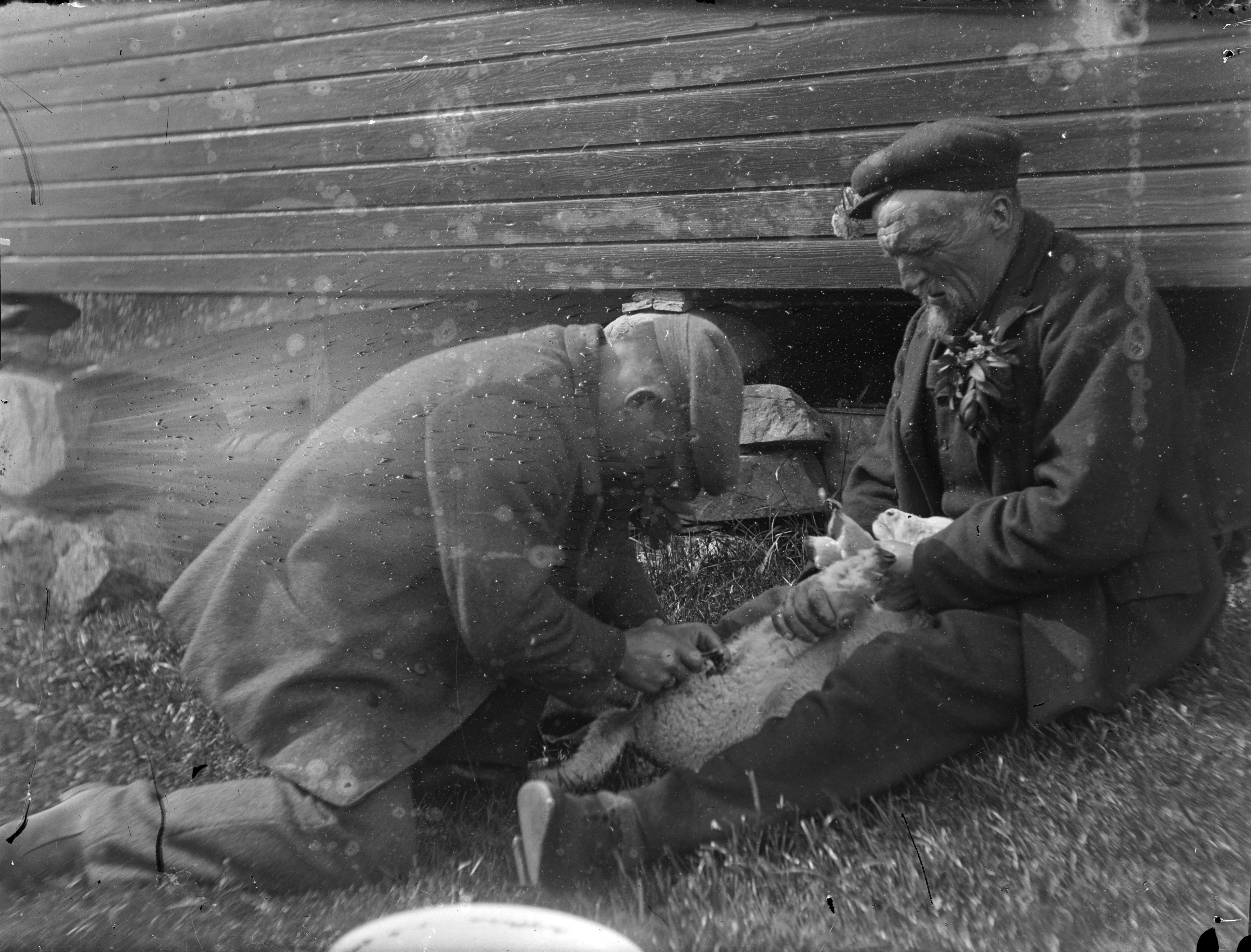 SFFf-1988007.0045 Johannes Flote and Anton Reite castrating a lamb. Photographer: Anders Folkestadås Date: ca 1900-1910. Medium: Glassplate negative Extent: 8 x 11 cm =